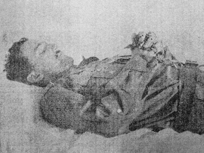 a corpse in uniform